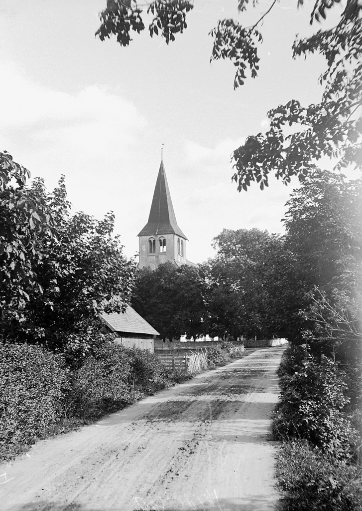 Hejde Church from the 13th century, on the island of Gotland